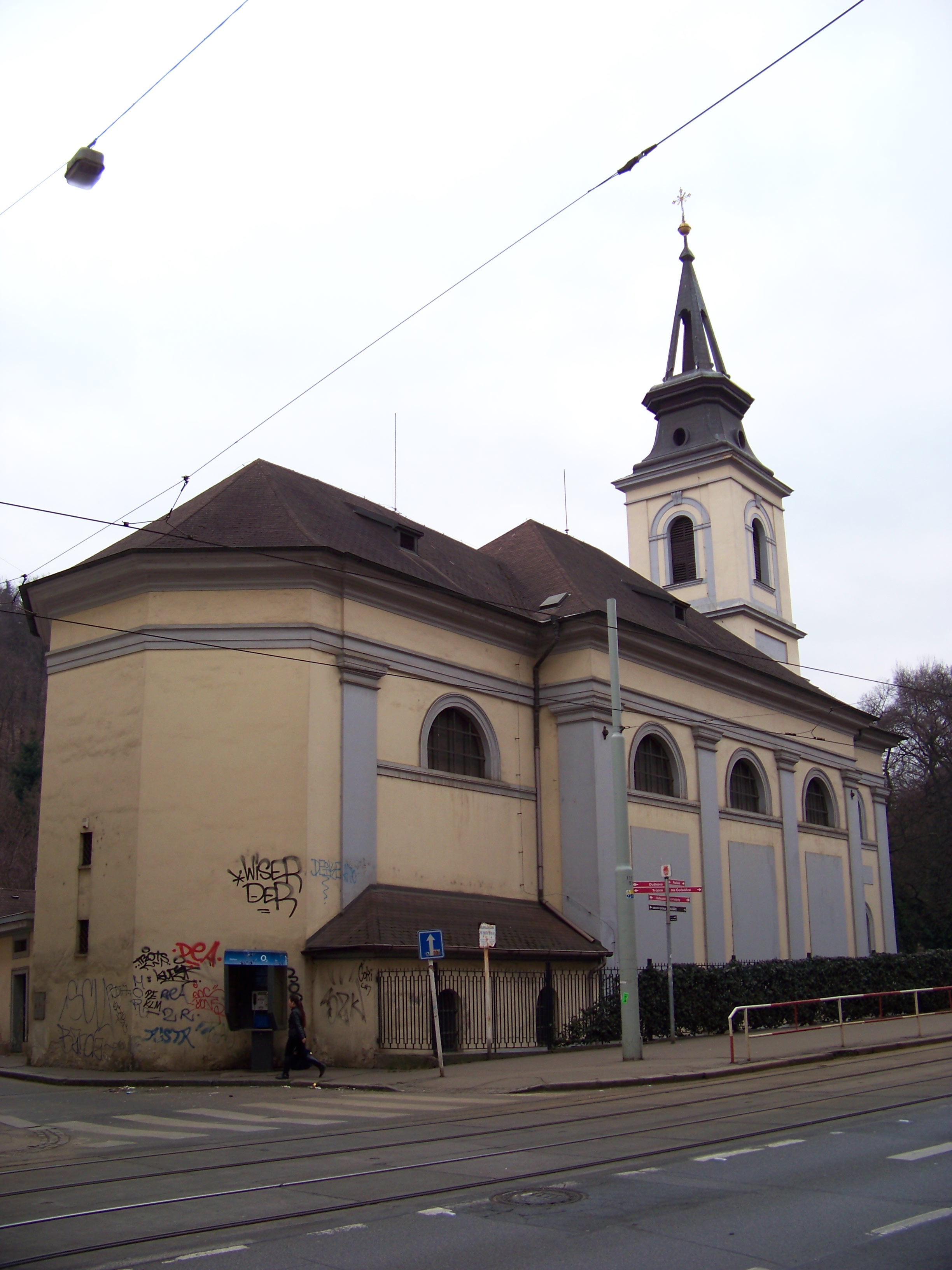 Prague-Smíchov, Czech Republic. Plzeňská street, Malá Strana Cemetery, church of the Holy Trinity.